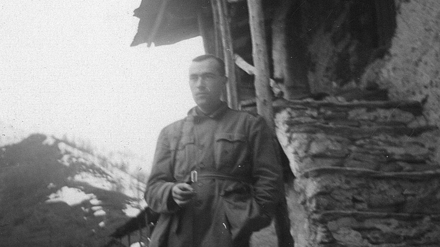 Il partigiano Aurelio Verra in Valle Maira o Grana nel 1943/45